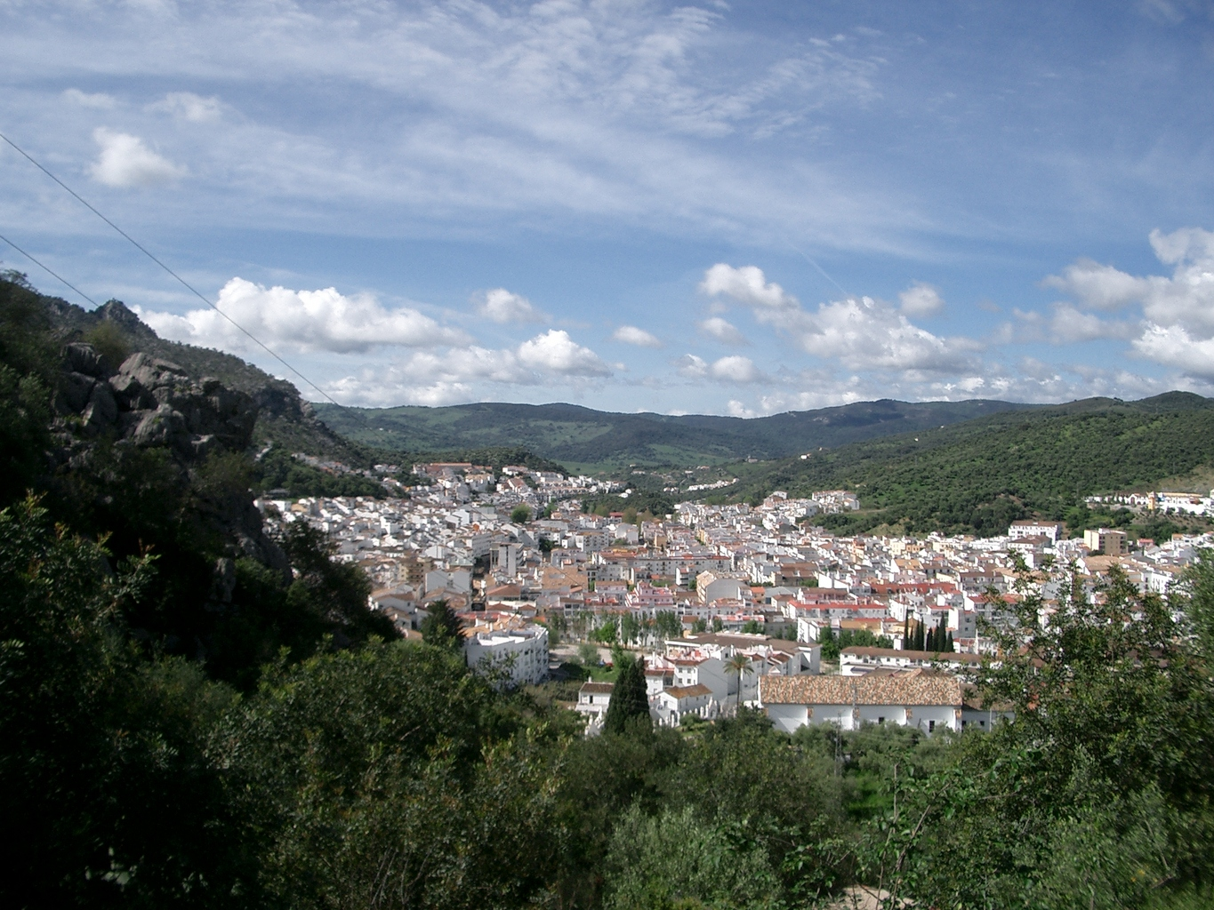 Ubrique